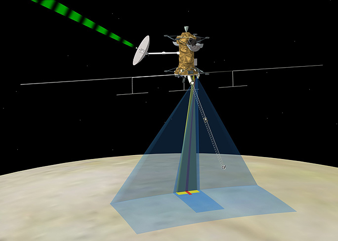 The NASA probe Jupiter Europa Orbiter scanning Europa (Artist's rendering)